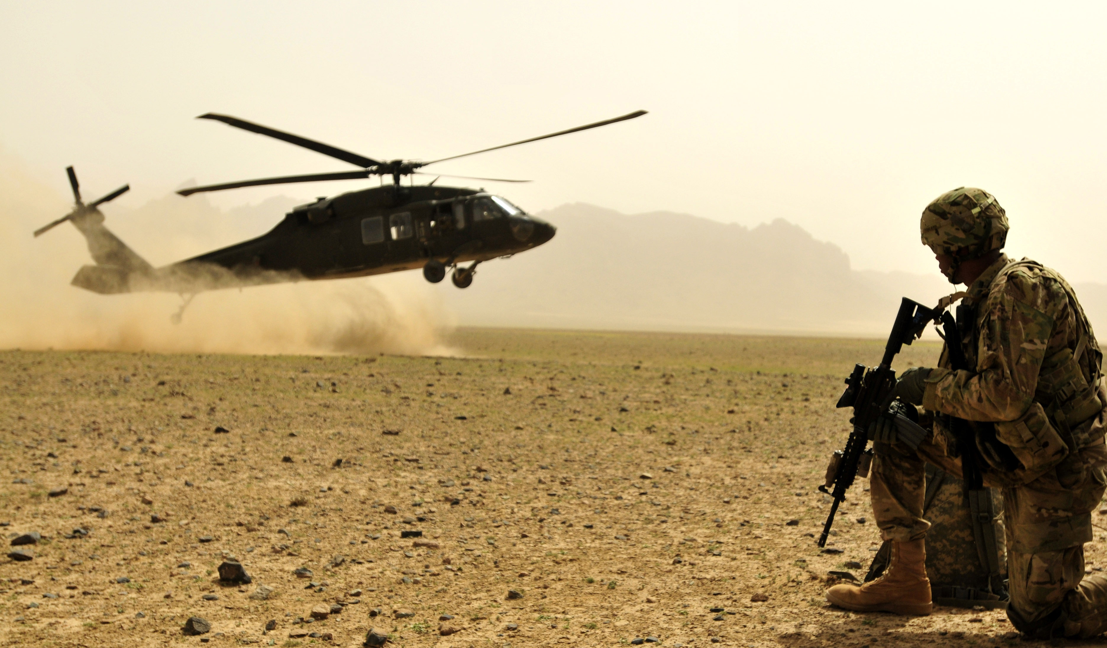 U.S. Army Sgt. Paul Jordan, a medic assigned to the 25th Combat Aviation Brigade, provides security as an UH-60 Black Hawk helicopter arrives to extract his team and members of 2nd Afghan National Civil Order Patrol Special Weapons and Tactics Team in Kandahar province, Afghanistan, on March 16, 2012.